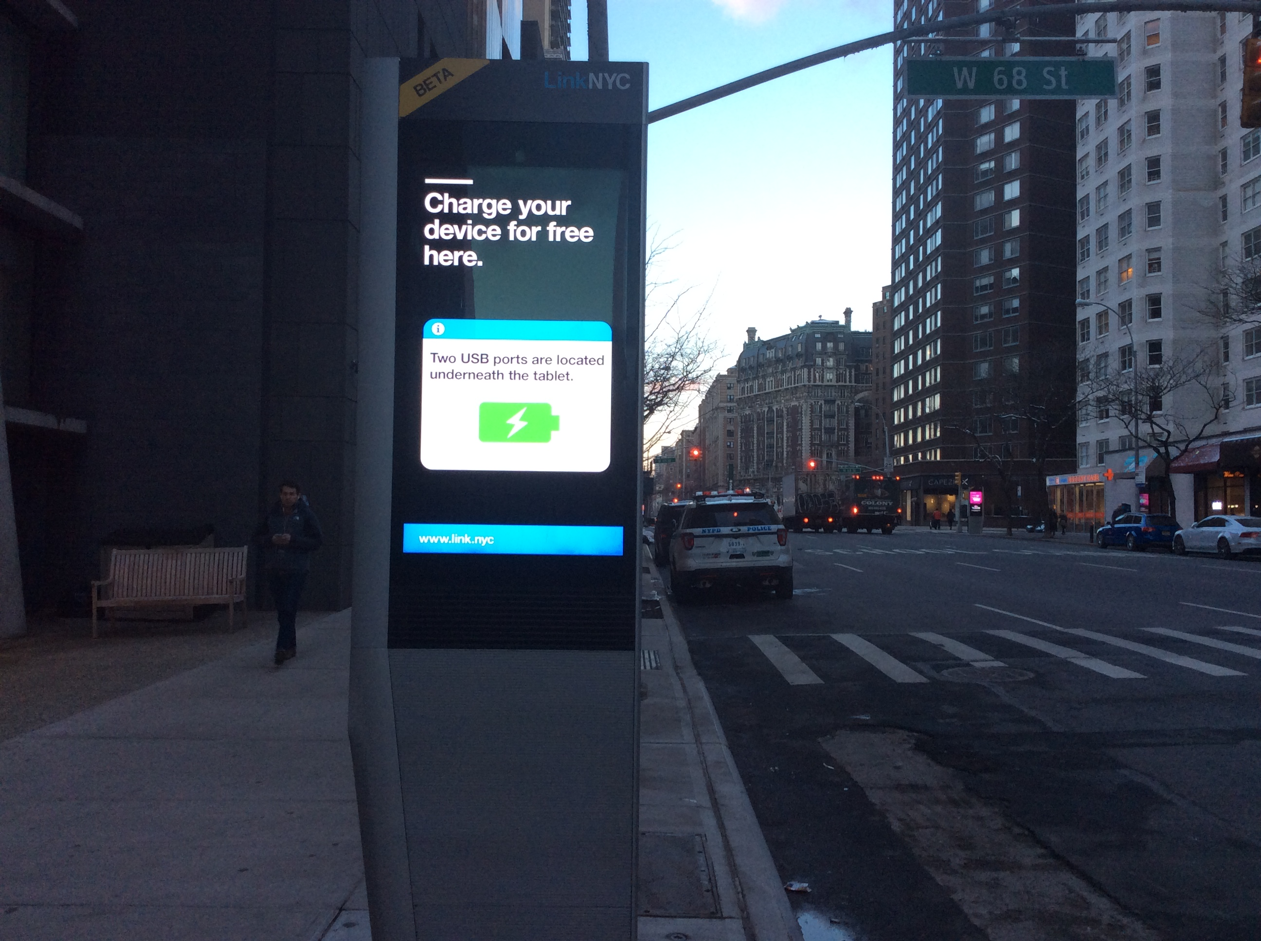 LinkNYC at Amsterdam Av in March 2017